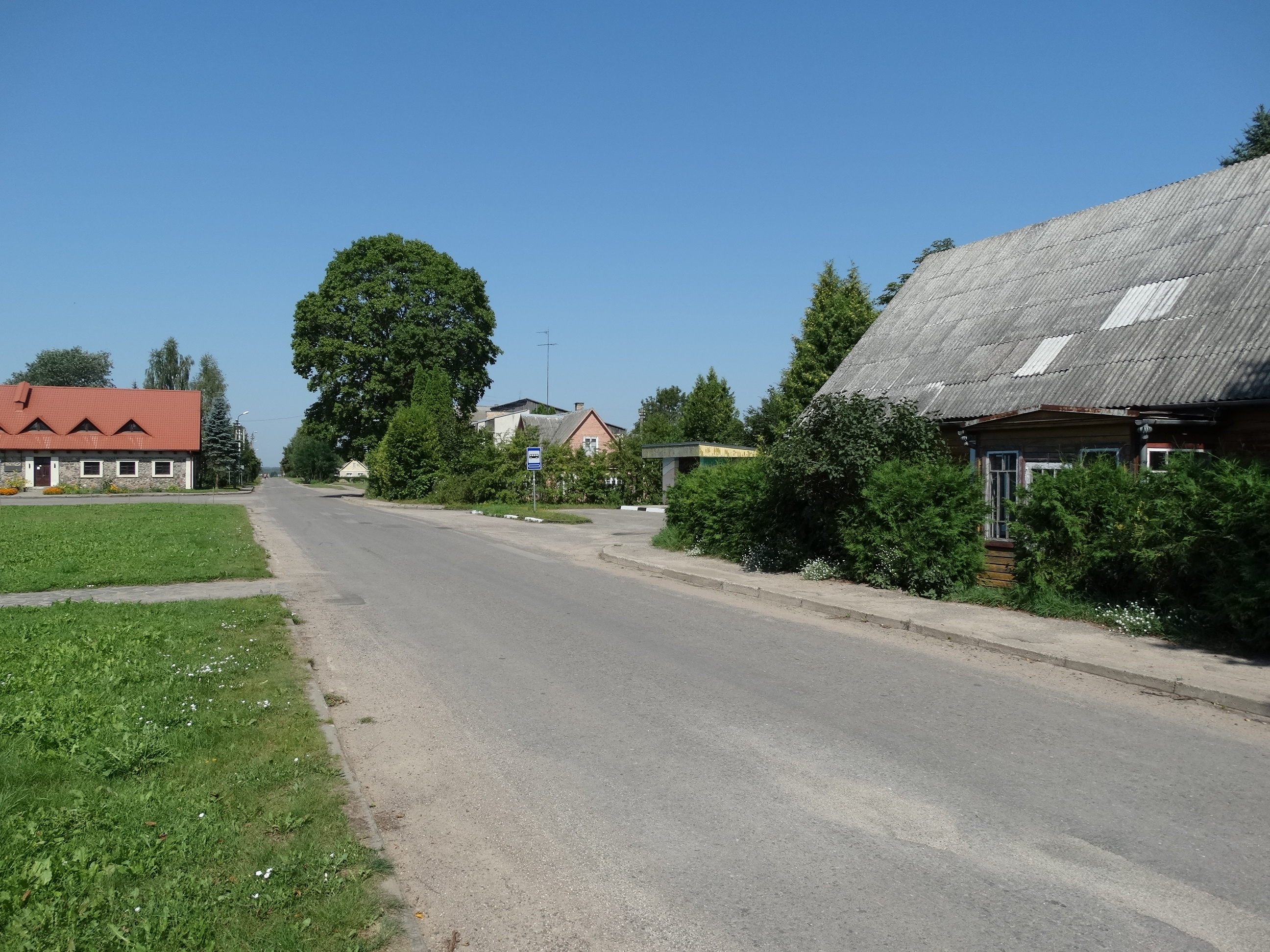 Street, Kriaunos, Rokiškis District, Lithuania